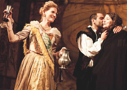 Helen Masters plays Lady Magdalene Danvers in 'Into Thy Hands' at Wilton's Music Hall in 2011, Jess Murphy (Ann Donne), Zubin Varla (John Donne) and Helen Masters (Lady Magdalene Danvers )